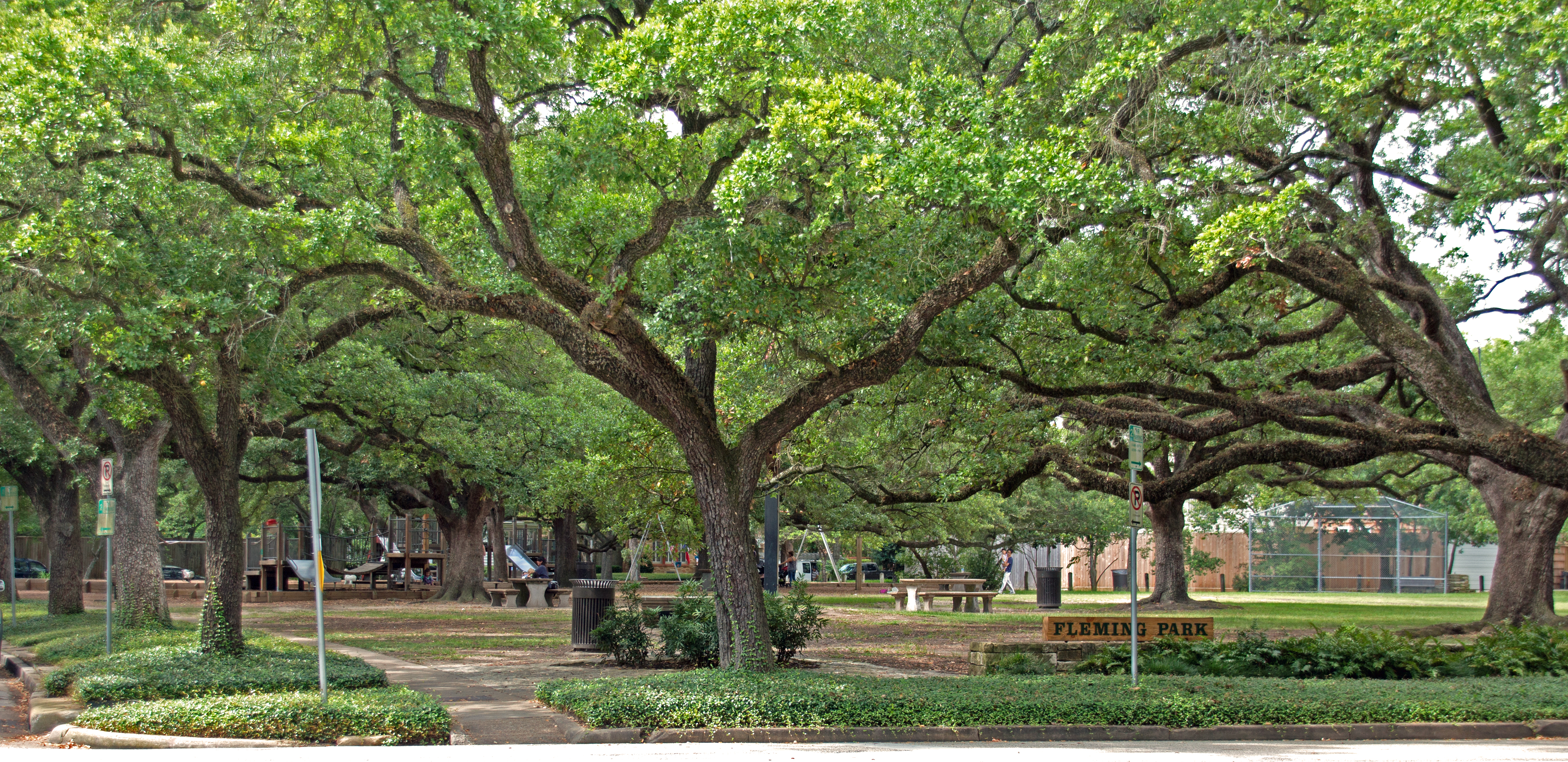 Fleming Park in Southampton, Houston, Texas